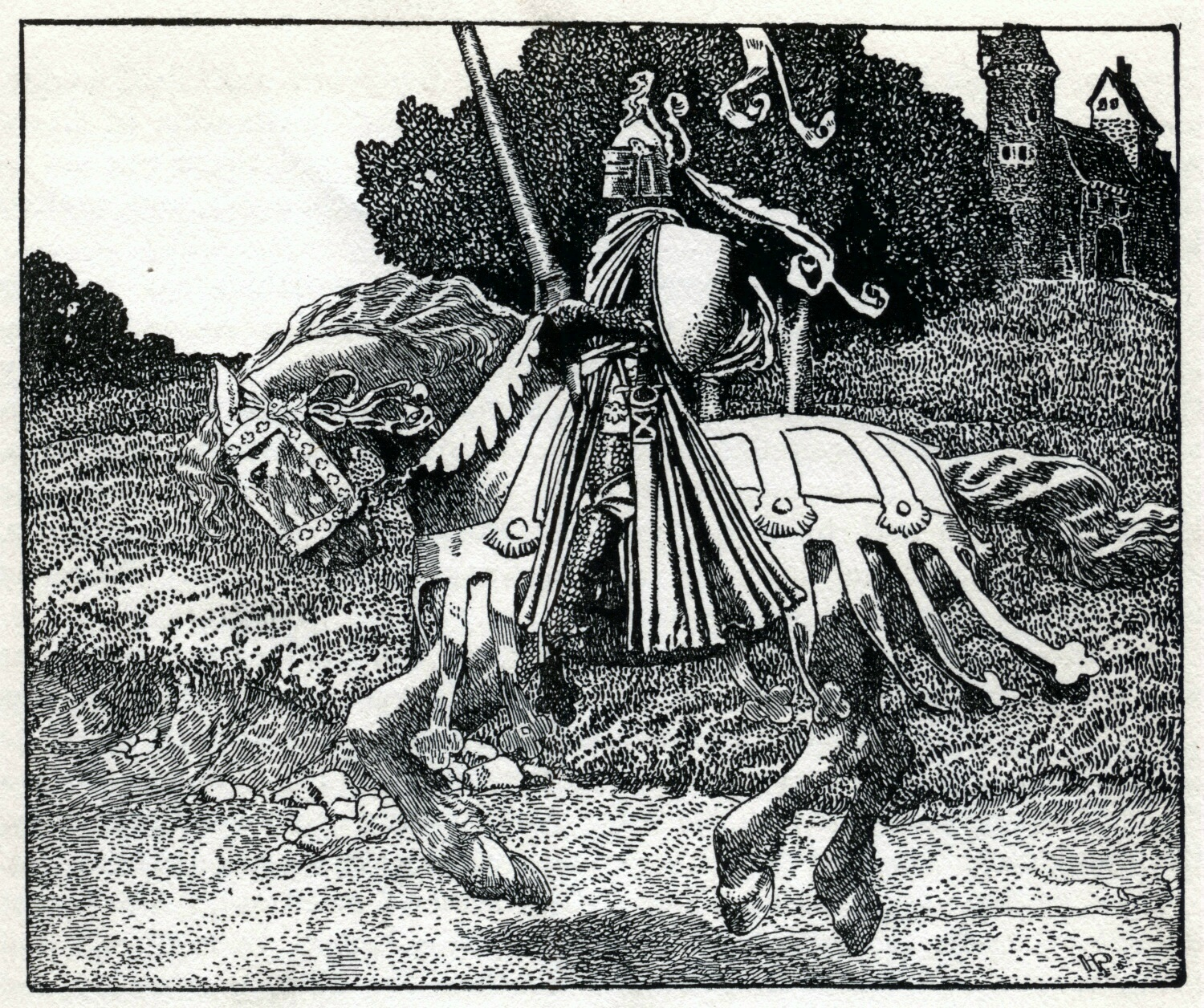 Howard Pyle illustration from the 1903 edition of The Story of King Arthur and His Knights scanned and archived at where it was marked as Public Domain.